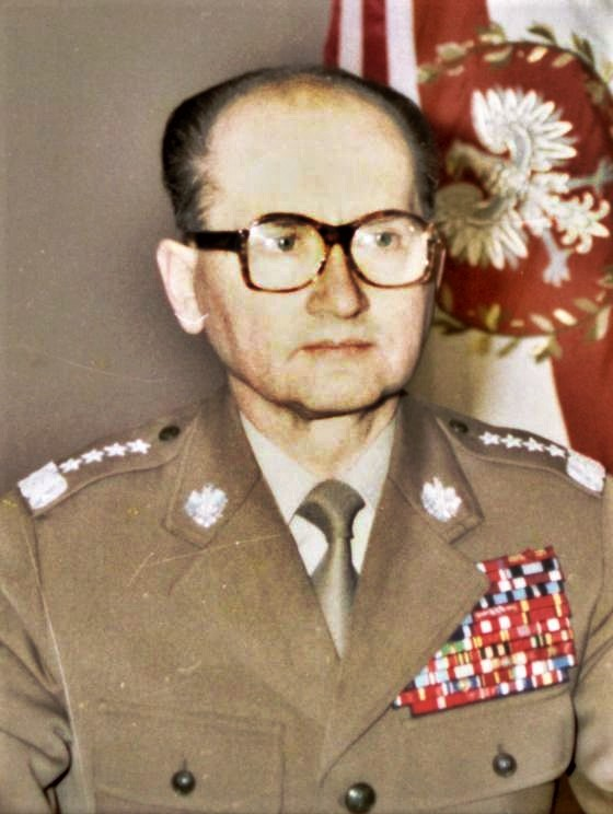 Gen. Wojciech Jaruzelski seen ready in a TV studio to read a speech announcing the introduction of martial law. Warsaw, 13 XII 1981